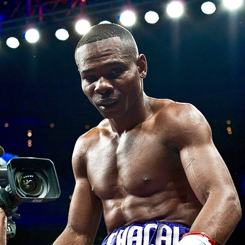 Guillermo Rigondeaux celebrates after beating Rico Ramos on January 20, 2012 at the Palms Casino in Las Vegas